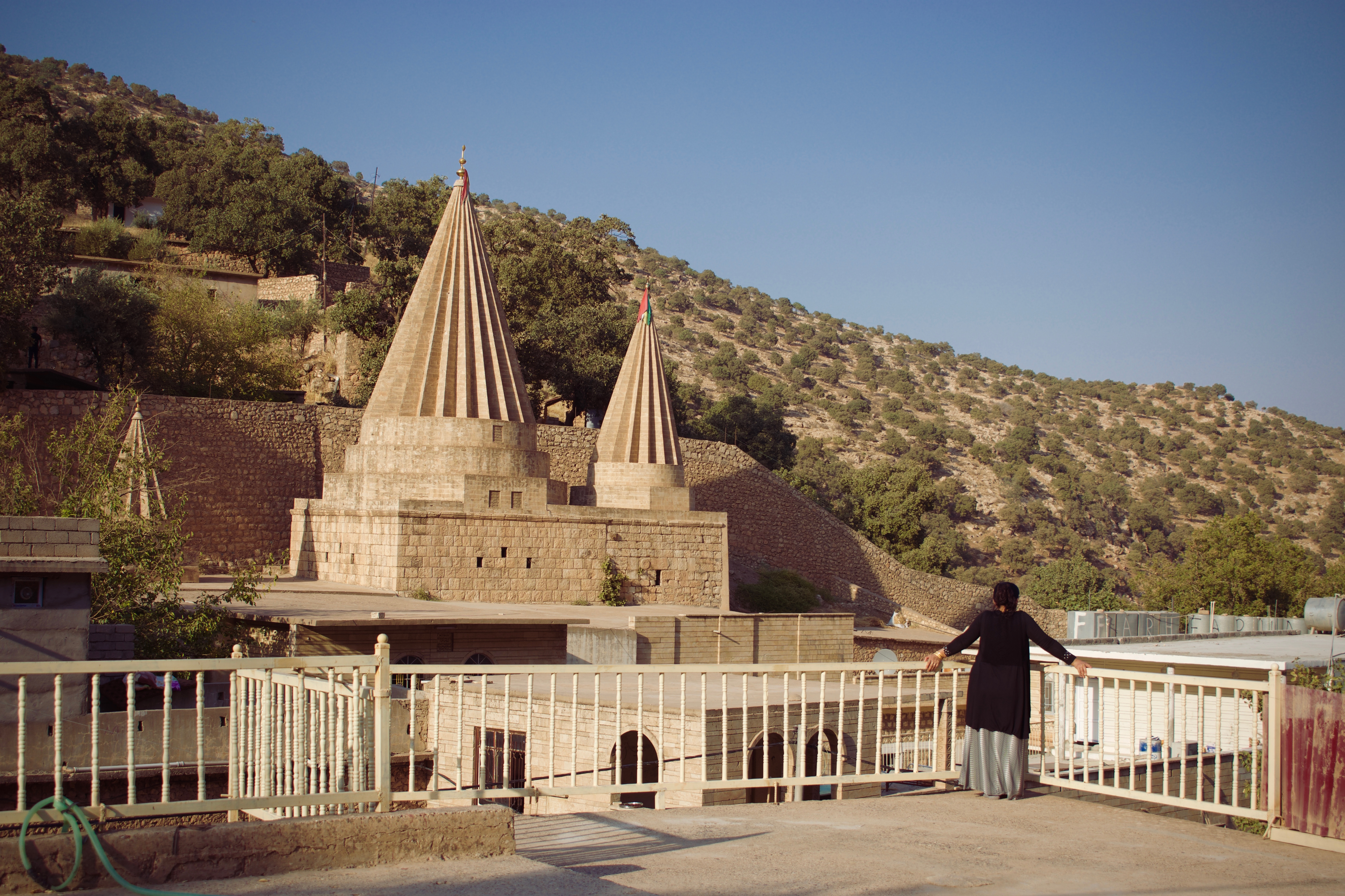 Lalish, the holiest site in Ezidkhan, the sacred place of the Ezidis, located in Duhok Governorate in the Kurdistan Region of Iraq